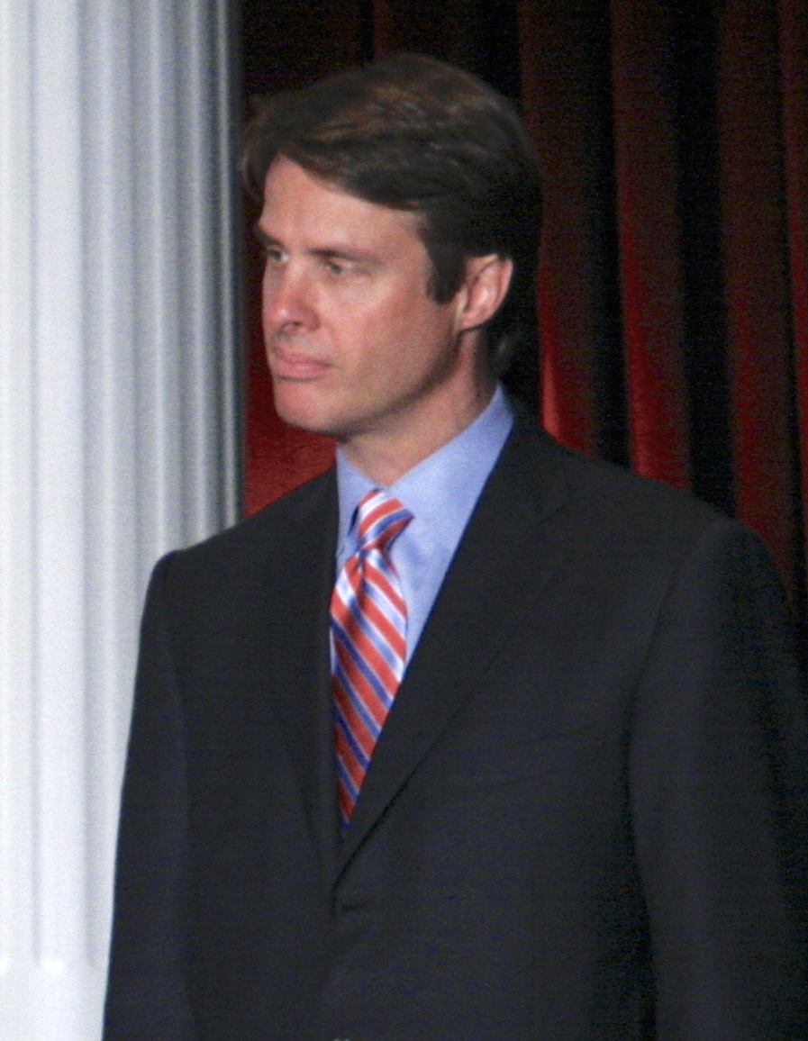 Terry Moran of ABC News at the 66th Annual Peabody Awards ceremony, in June 2007, held at the Waldorf-Astoria Hotel, in New York.